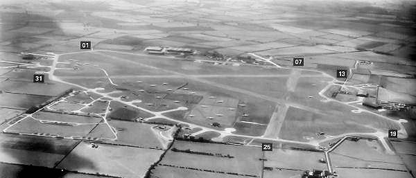 Low oblique photograph of Langar airfield, looking to the northwest. Noticing the large number of C-47s and Gliders on the grass parts of the field along with the hardstands.